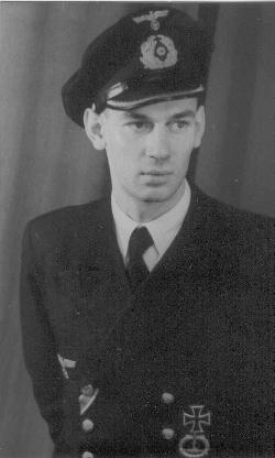 First Lieutenant Hanskurt von Bremen - commander of the german submarine U 764